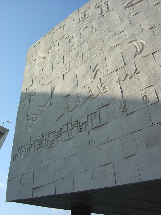 Exterior photo of the Bibliotheca Alexandrina library in Alexandria, Egypt. Stone relief mural on exterior stone wall.